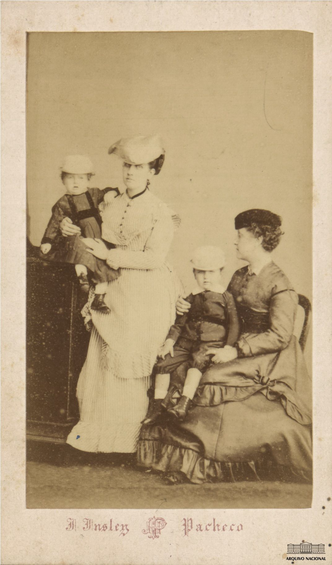 Princesses Isabel (1846-1921), seated and holding Pedro Augusto of Saxe-Coburgo (1866-1934), and her sister Leopoldina of Brazil (1847-1871), holding Augusto of Saxe-Coburgo (1867-1922). (Rio de Janeiro, 1866)